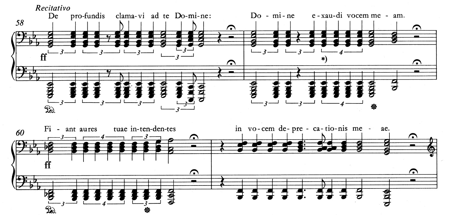 The score of Hymn No.129 "De profundis" from "Harmonies poétiques et religieuses" S.173 No.4 from Franz Liszt